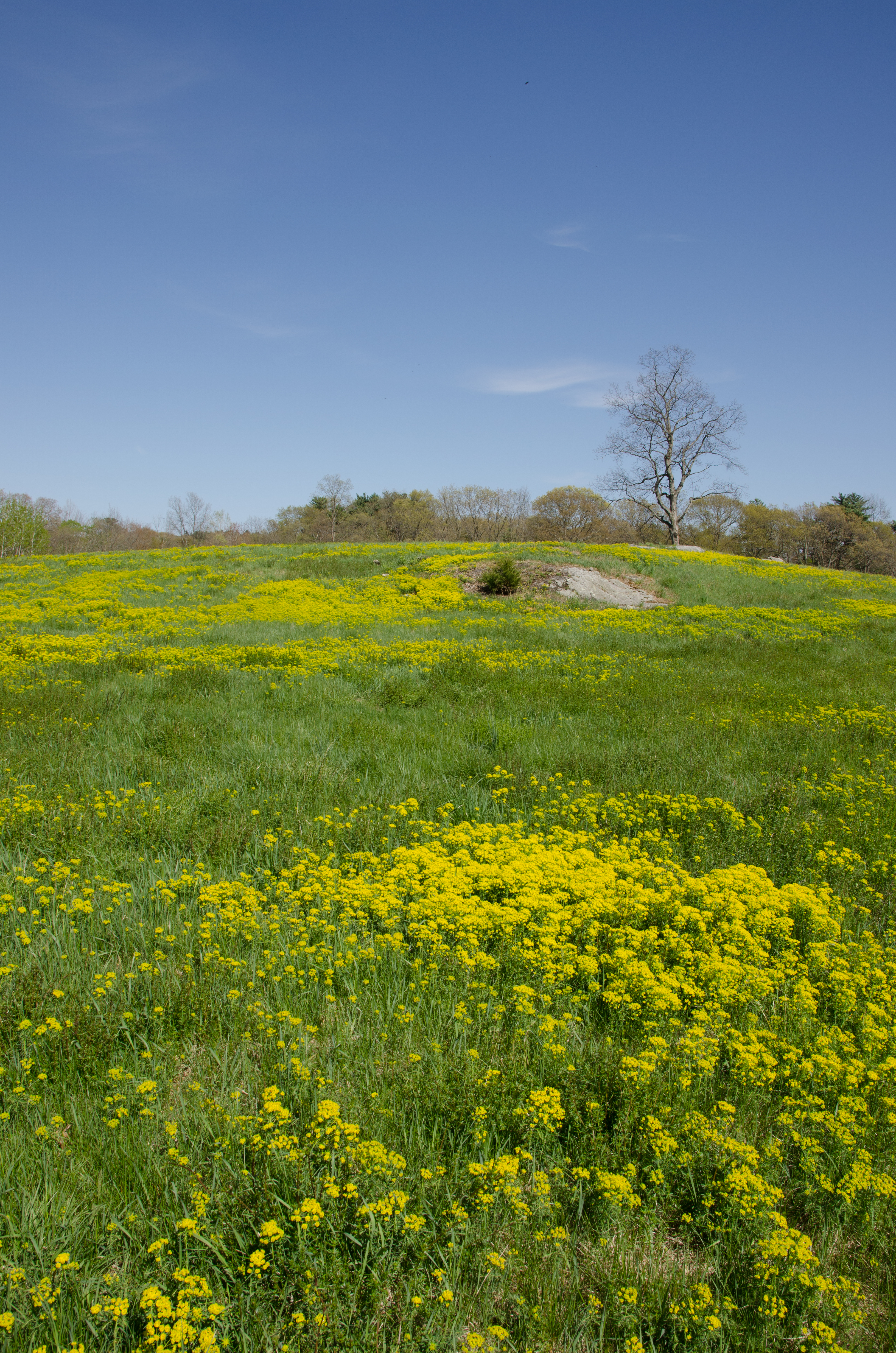 The Charles River Pinensula nature preserve.